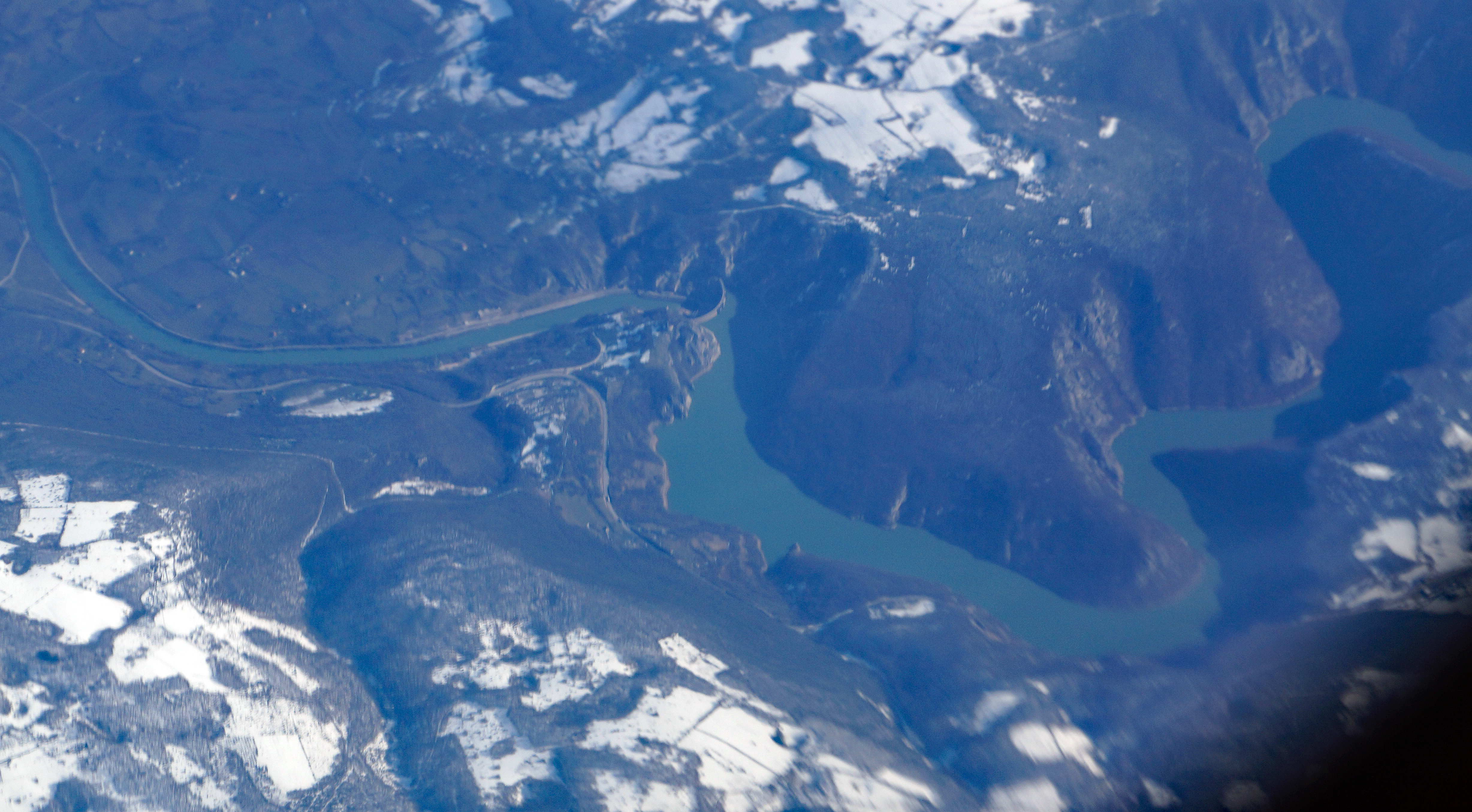 Bočac Hydroelectric Power Station in Bosnia-Herzegowina